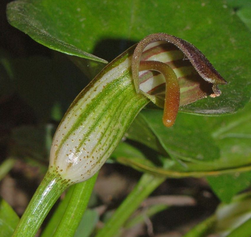 Arisarum vulgare - Genova, Italy